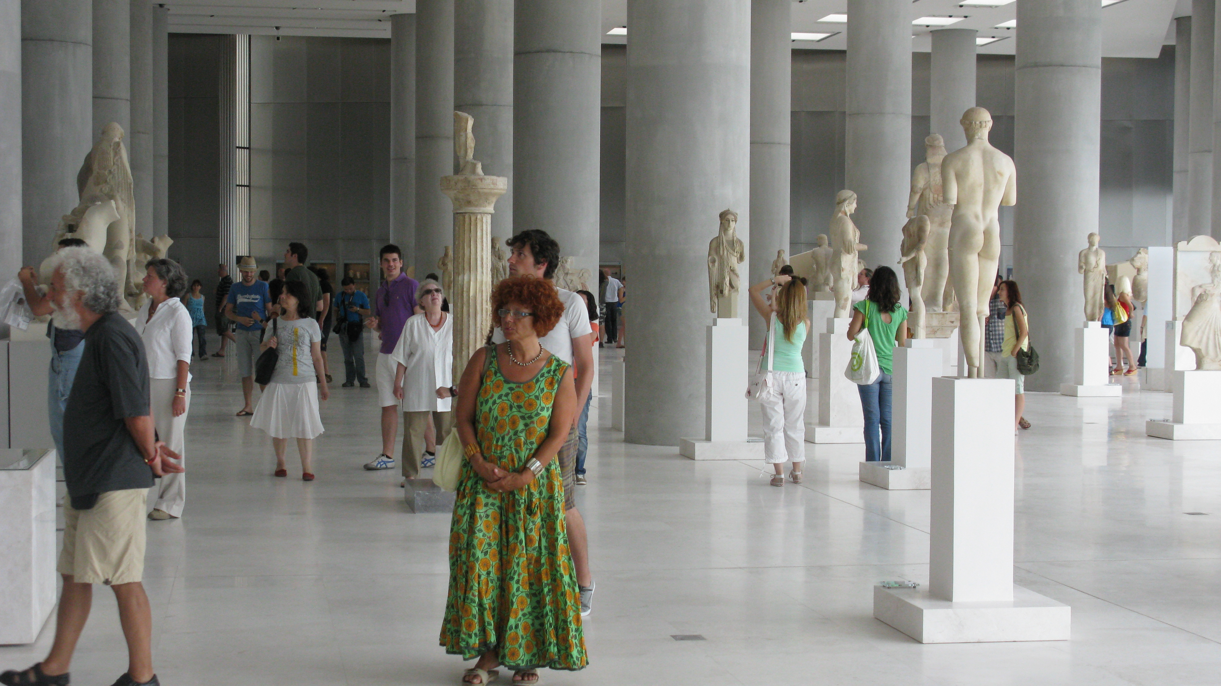 Interior of the New Acropolis Museum of Athens.